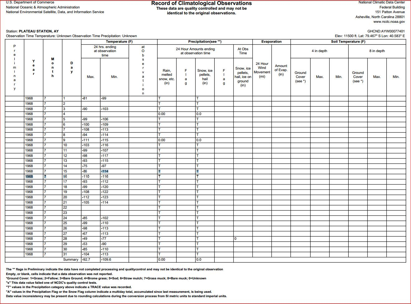 User created with UploadWizard